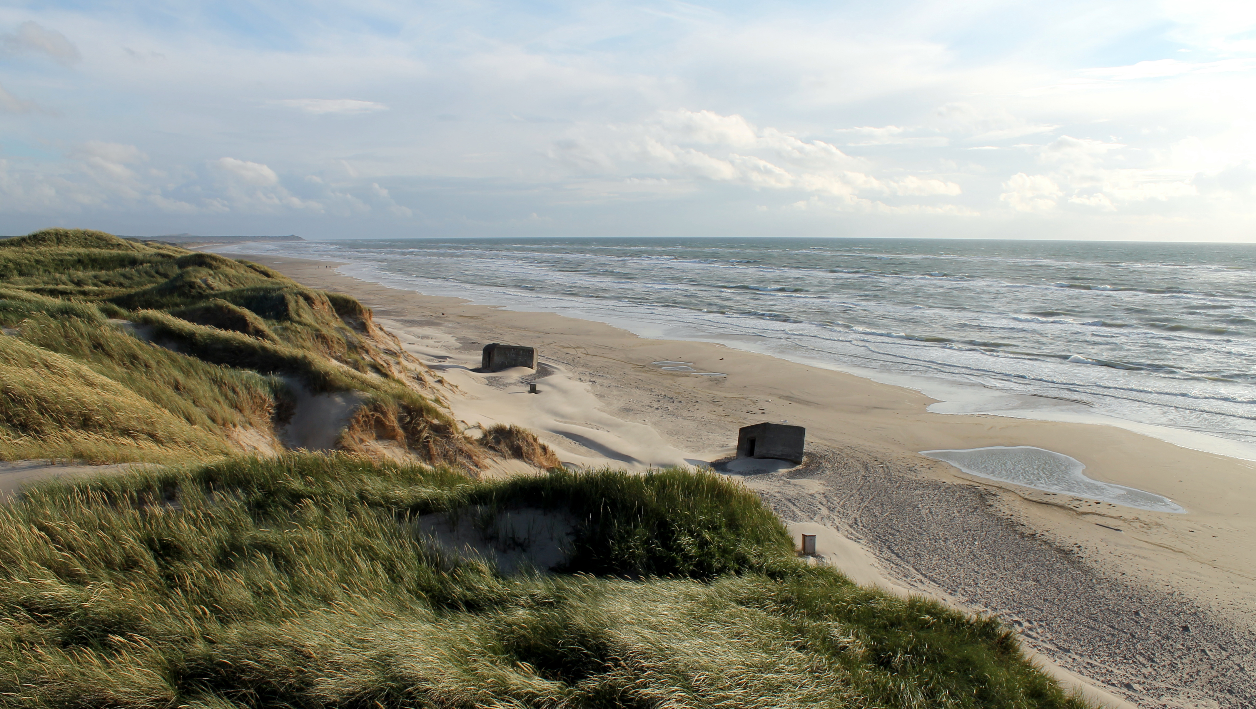 Atlantic Wall bunkers at the Kærgård Beach in Denmark